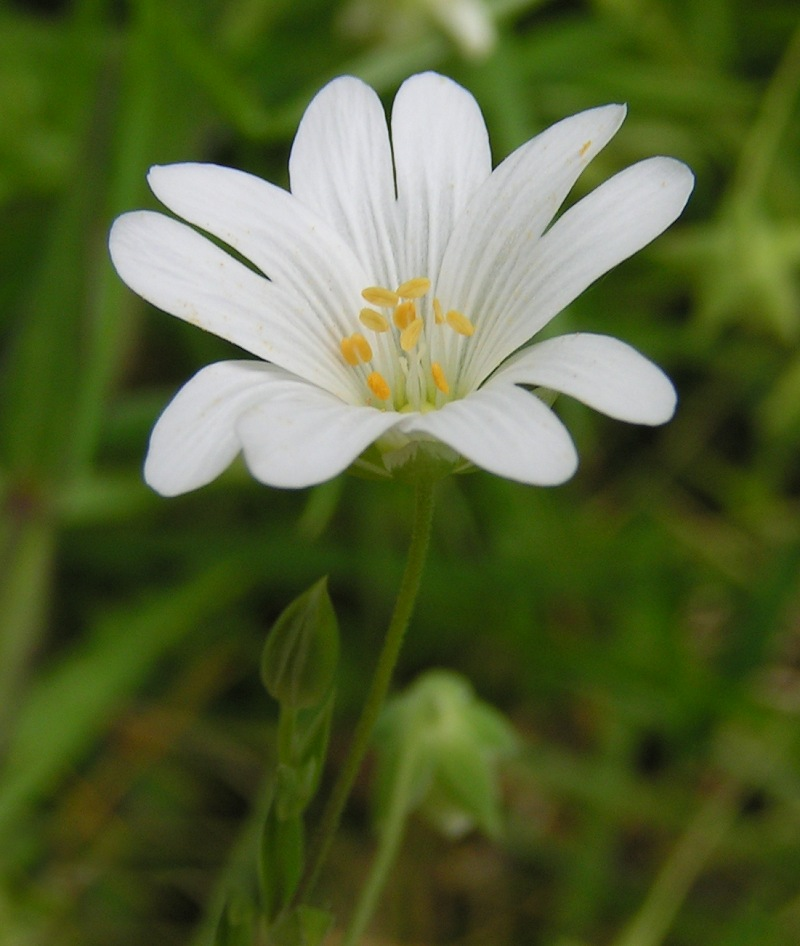 Greater Stitchwort (Stellaria holostea). Photo by sannse, Great Holland Pits, Essex, 6 June 2004.